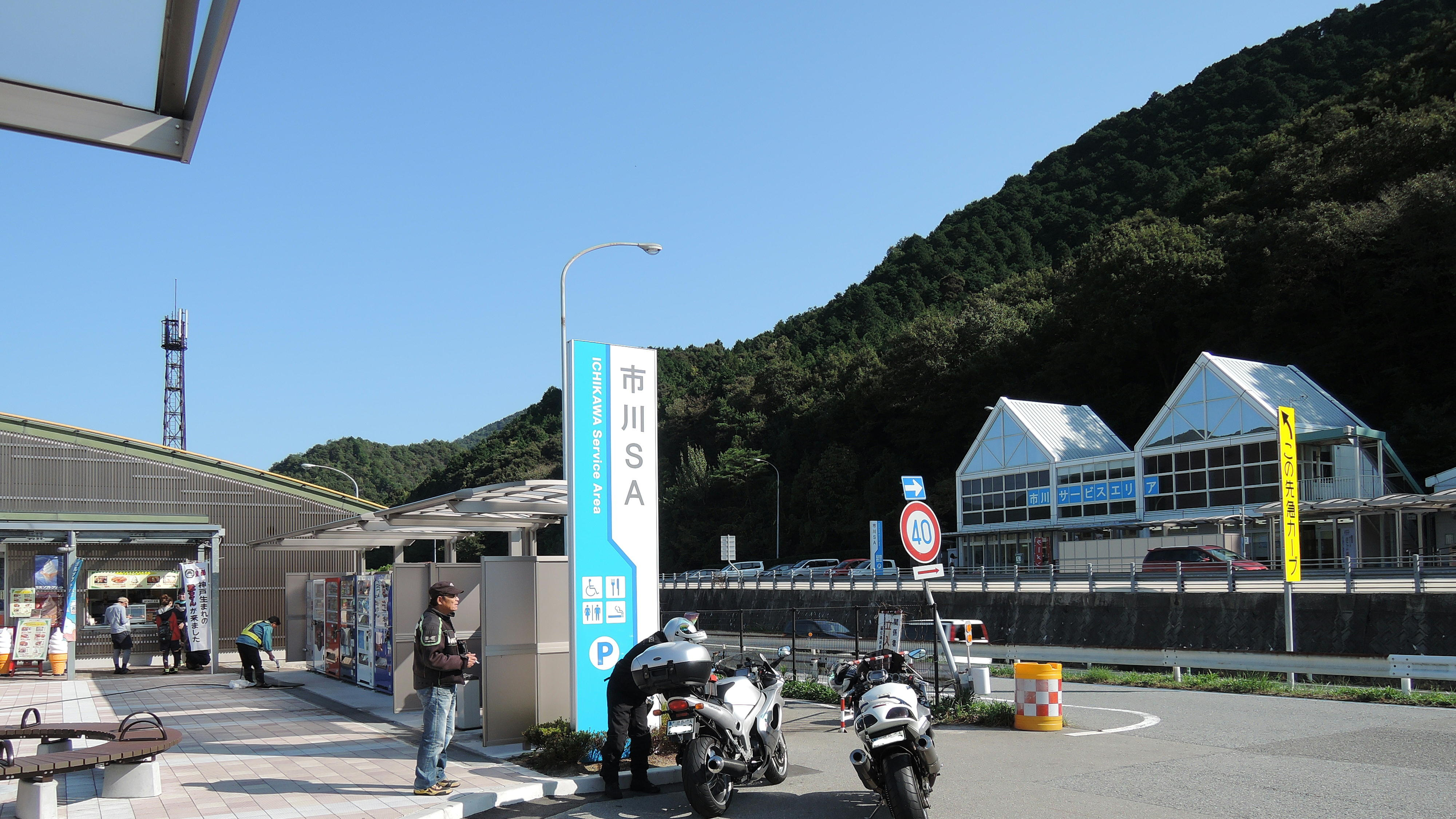 Ichikawa Service Area ,Hyogo prefecture, Japan